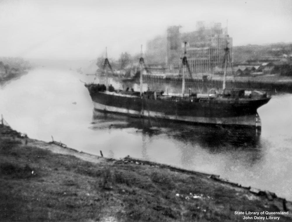 Archibald Russell (ship) Hulk of the four-masted barque, the Archibald Russell, in the River Tyne, opposite Spillers Grain Wharf in August 1948.